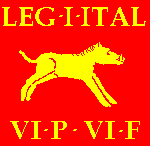 Signum of Legio I Italica (sixtimes Pia Fidelis), simplified reconstruction according to a coin of Gallienus